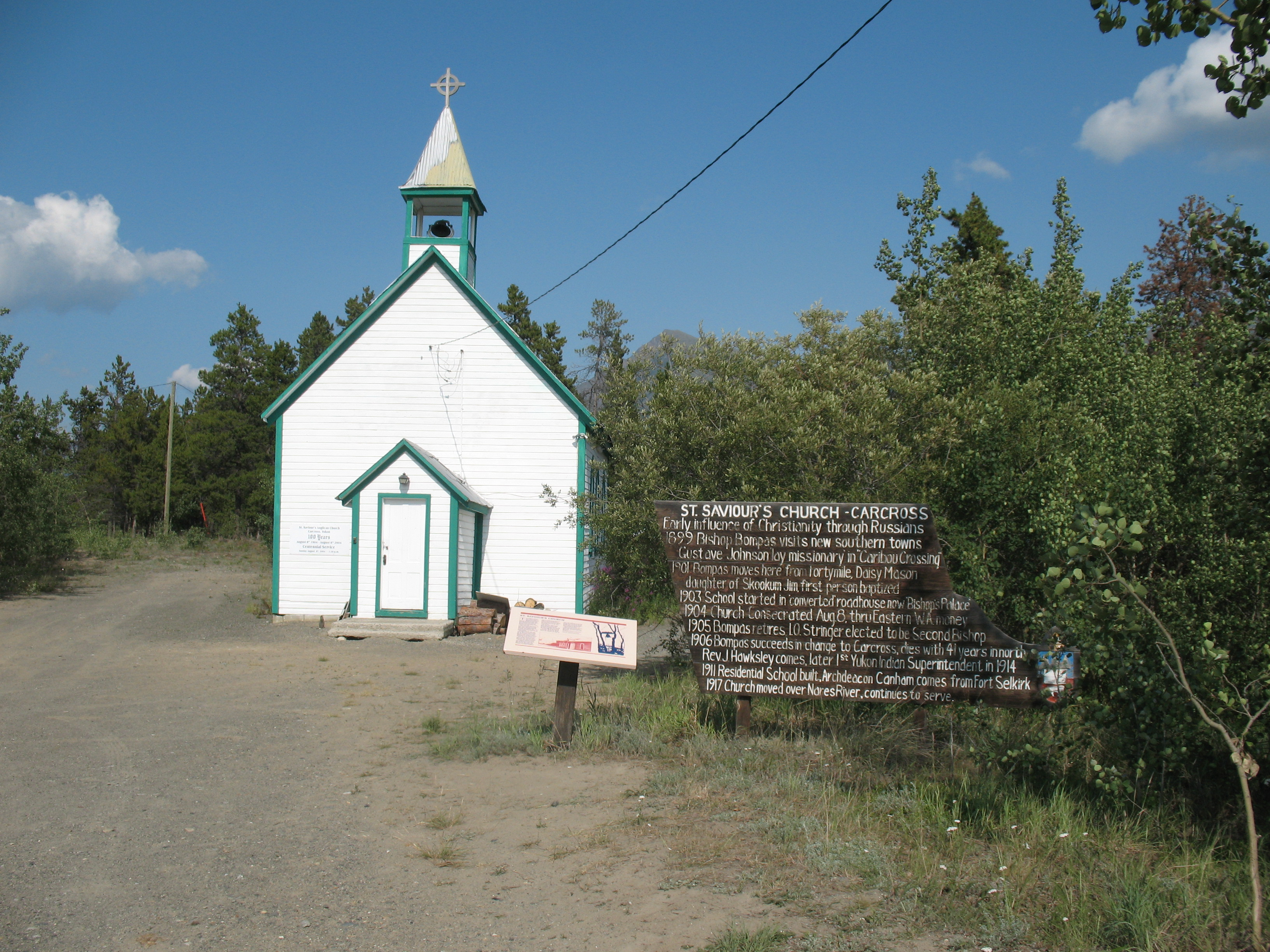 St_Saviours_Church_in_Carcross, Yukon